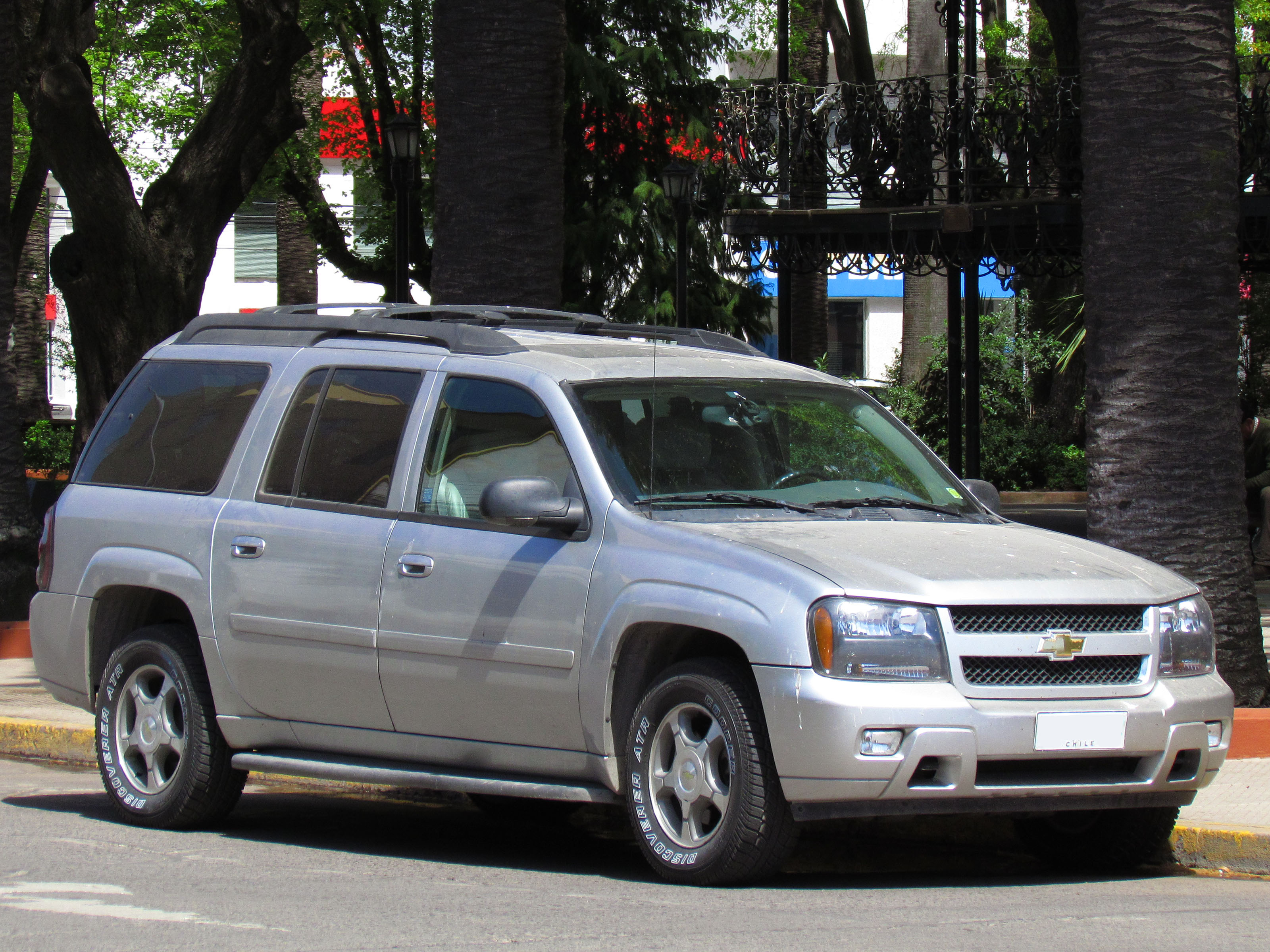 Chevrolet Trailblazer LT EXT 2006